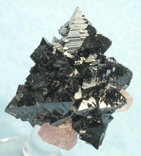 Hausmannite, Datolite Locality: Wessels Mine (Wessel's Mine), Hotazel, Kalahari manganese fields, Northern Cape Province, South Africa (Locality at ) Size: 2.7 x 2.6 x 1.6 cm. Superb complex of brilliant Hausmannite pseudo-octahedrons, ranging up to 1 cm on edge, accented by two gemmy pink datolites (a rare and unique combination) which range up to .8 cm. A superb thumbnail, in every sense. This piece is highly symmetrical, and also is bright and reflective. Ex. Charlie Key.